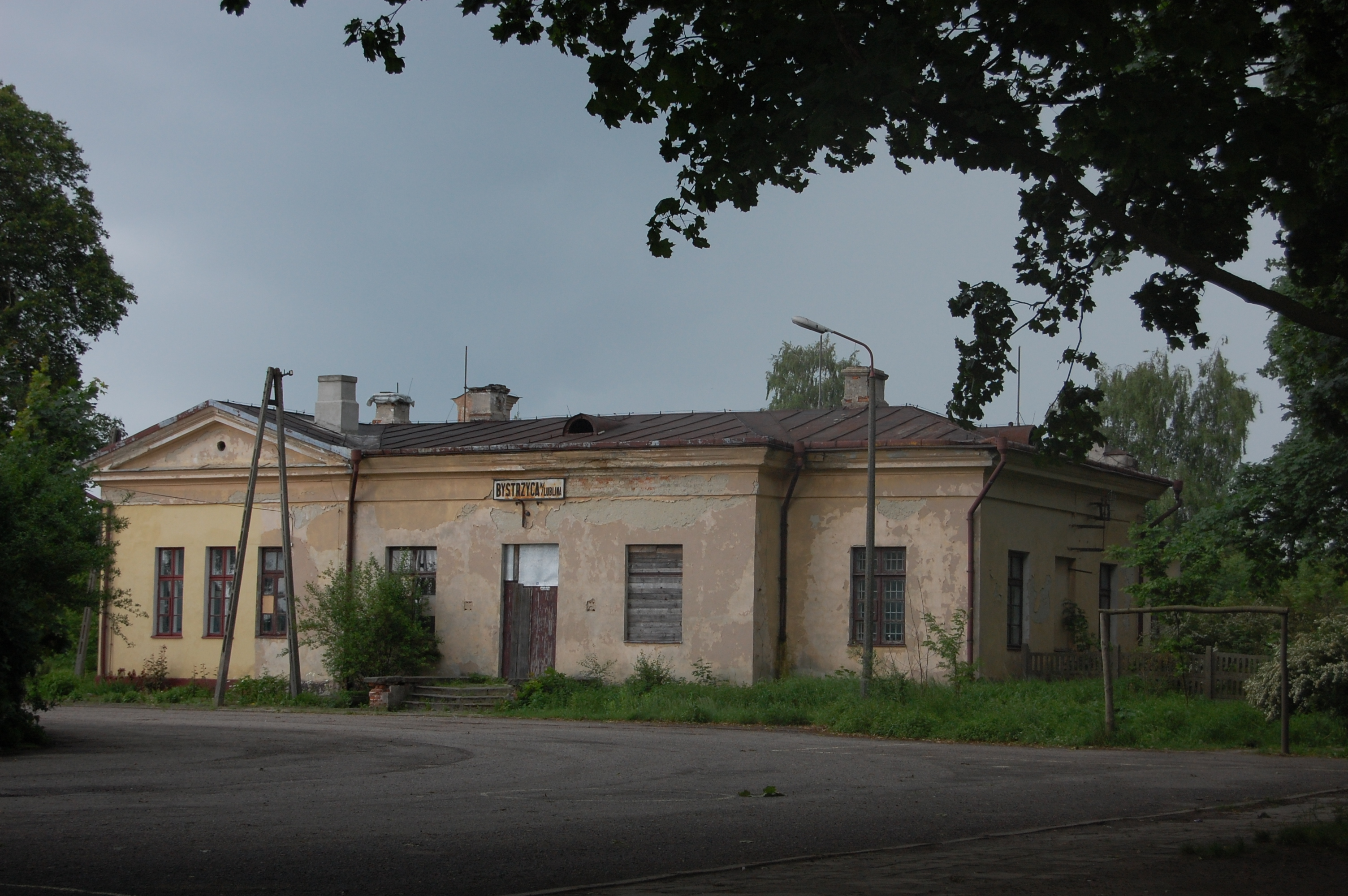 "Bystrzyca near Lublin" train station in Leonów